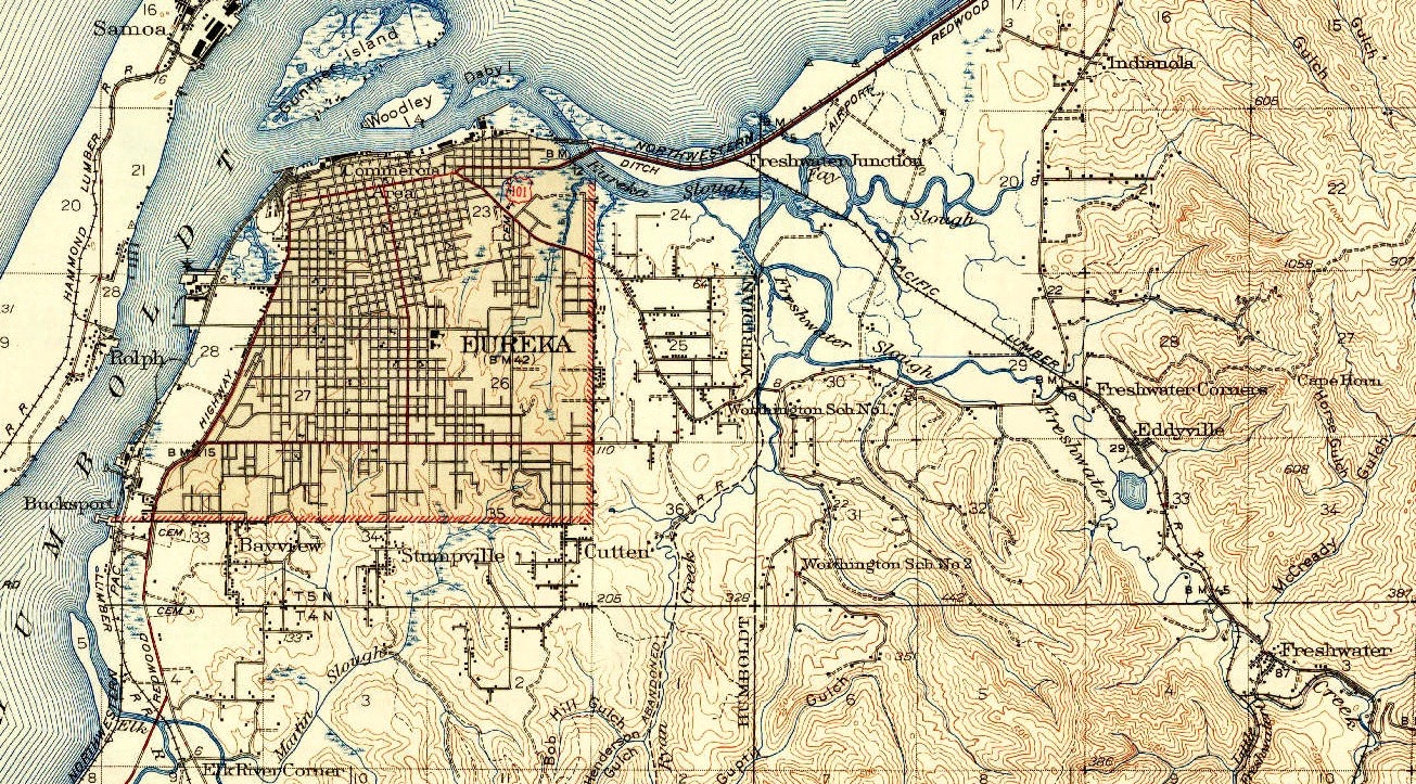 Northern portion of route